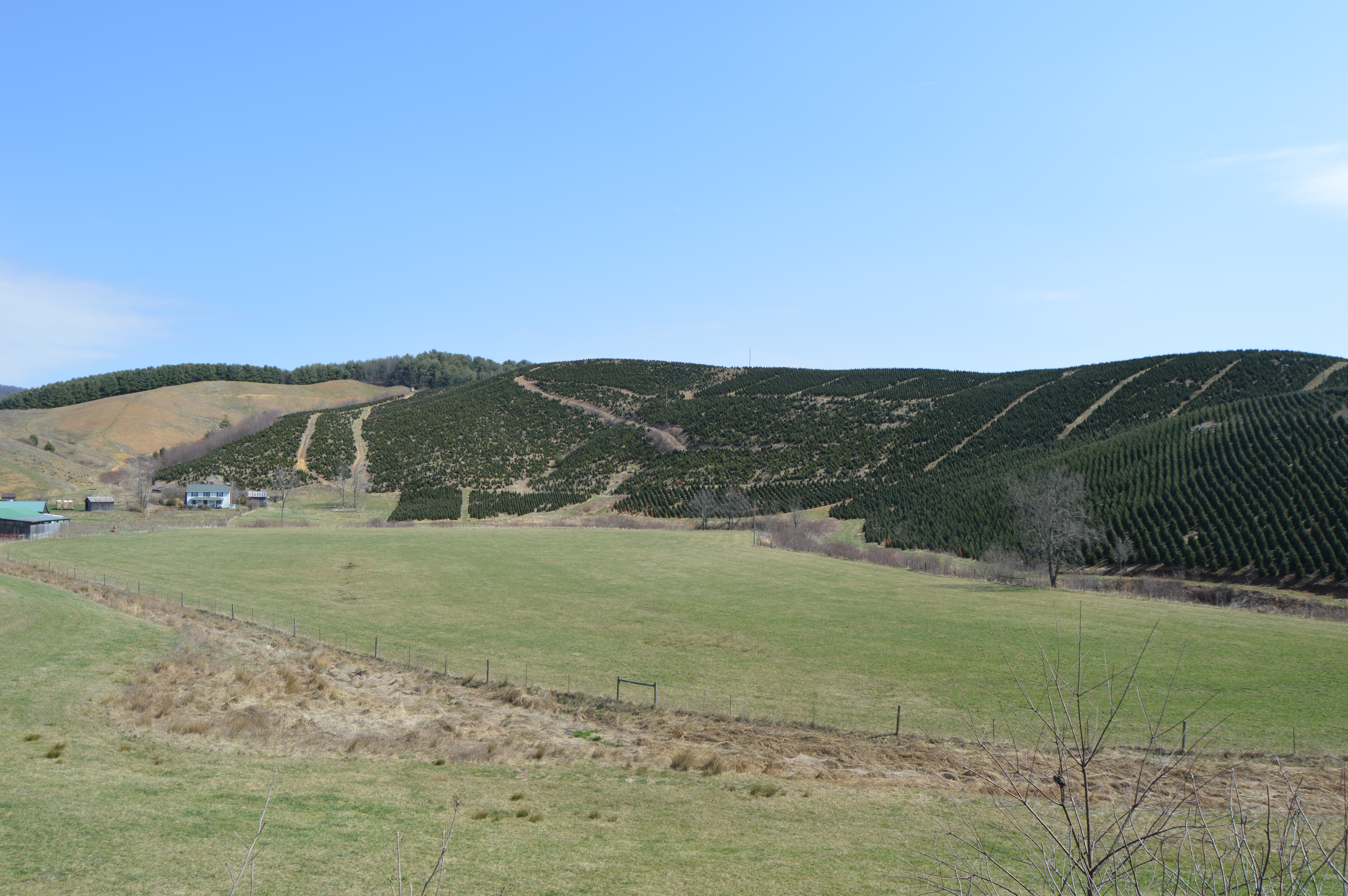 Part of a Christmas tree farm on Spring Valley Road west of Fries in Grayson County, Virginia, United States. This property, like many around it, is part of the Spring Valley Rural Historic District, a historic district that is listed on the National Register of Historic Places.